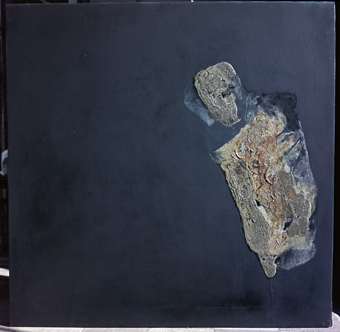 Carlo Alfano, Figura e spazio, 1961